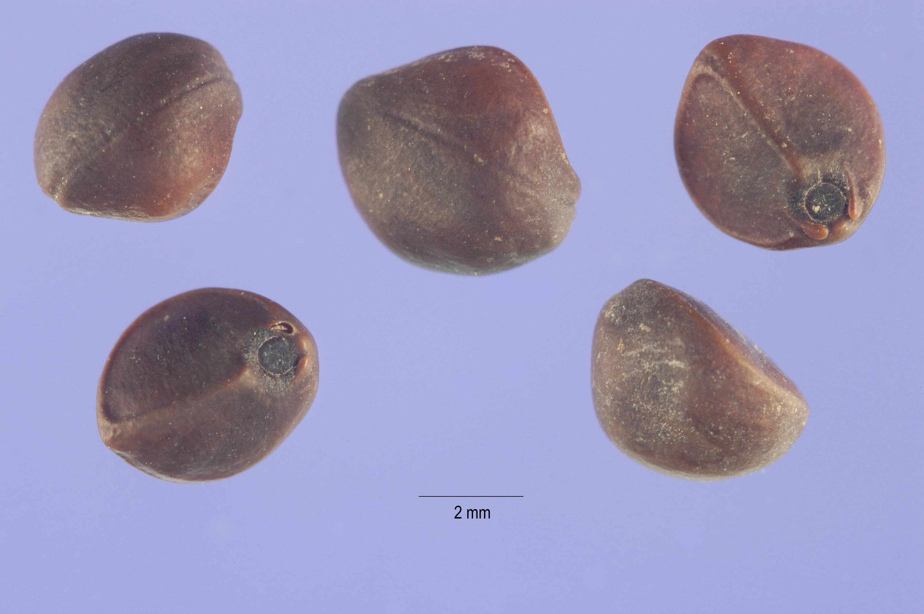 Ipomoea batatas seeds. Provided by ARS Systematic Botany and Mycology Laboratory. Papua New Guinea, Port Moresby.